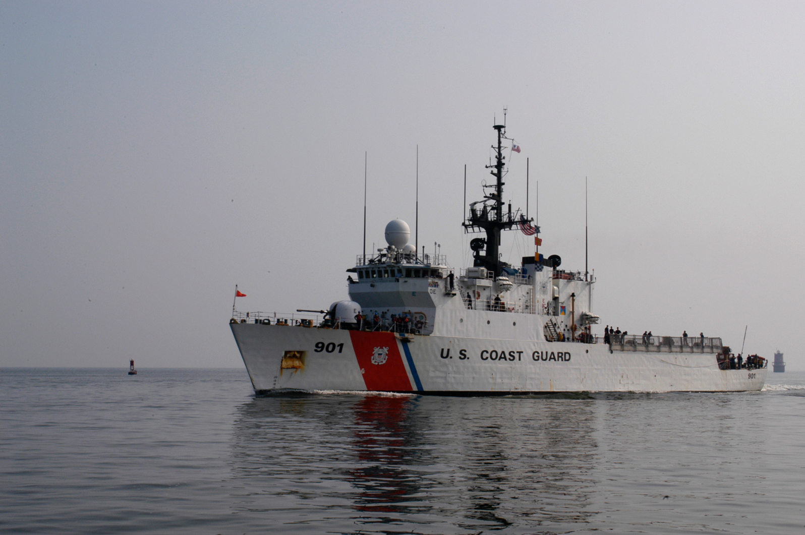 The USCGC Bear passes a sea buoy as it sails into its home port of Portsmouth, Va. from a 91-day deployment to Africa.